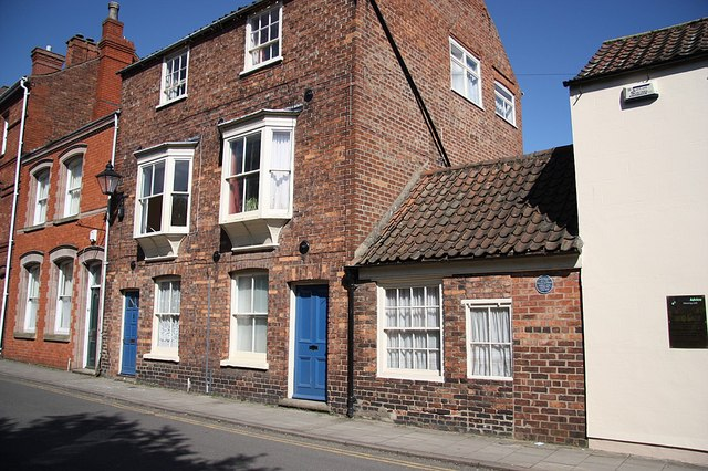 Church Street. The site of William Marwood's Cobblers shop on Church Street, he was appointed official hangman in 1872 after perfecting his 'long drop' technique.